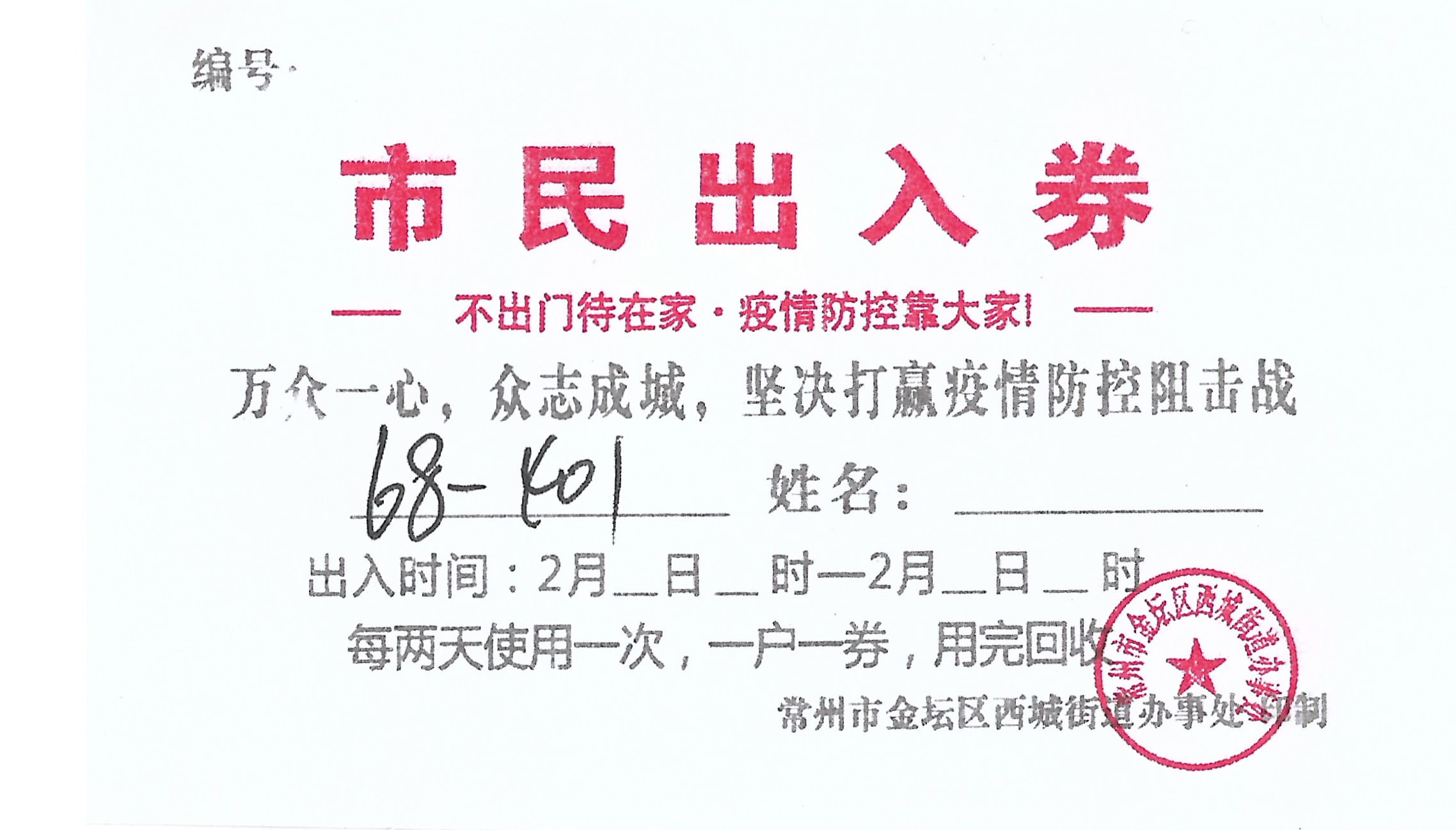 Exit-Entry Permit for Residents During the Outbreak of 2019-nCoV, issued by People's Government of Jintan.